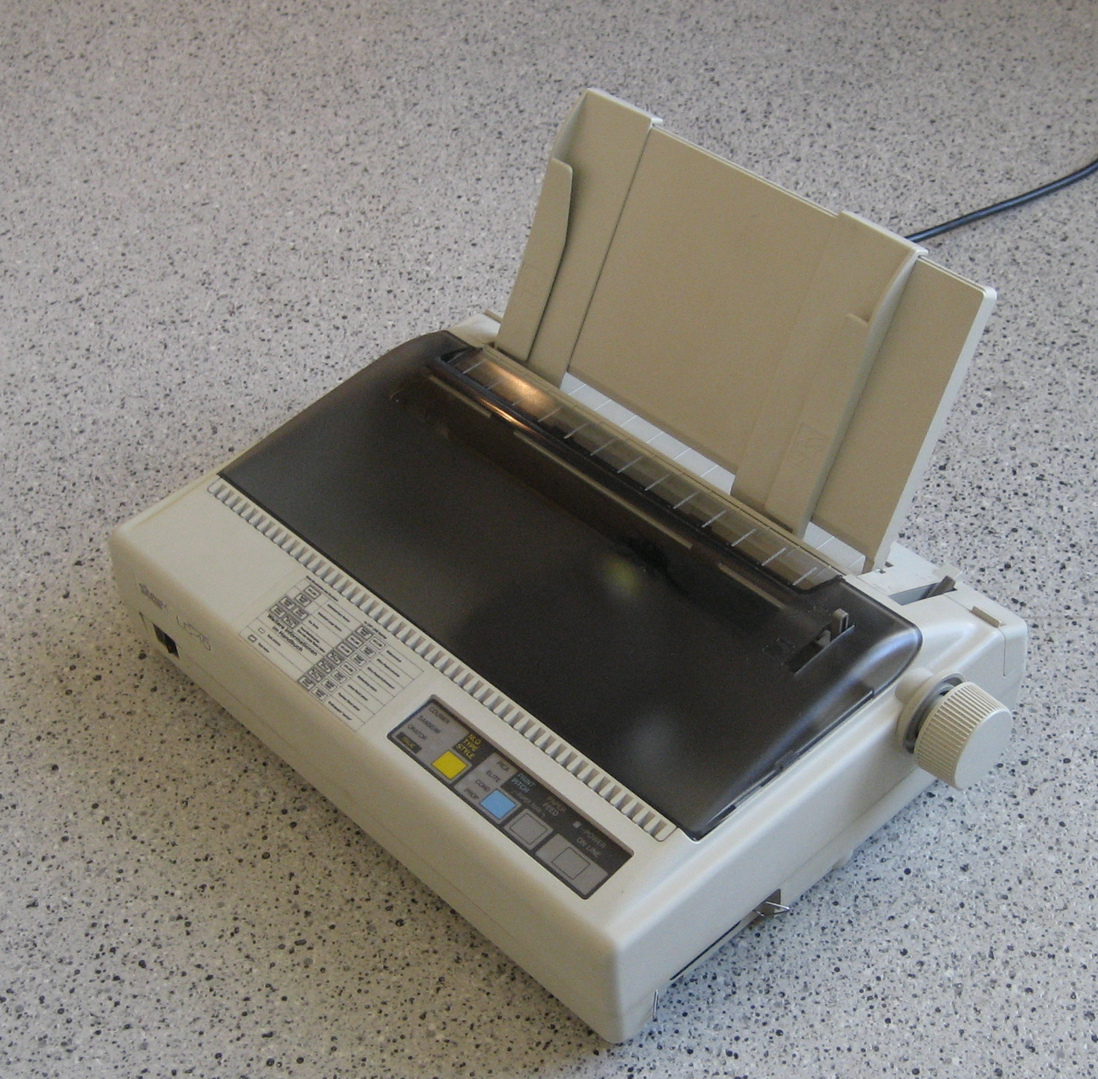 Star LC-10 dot matrix printer, this printer was actual technology in the 1980s